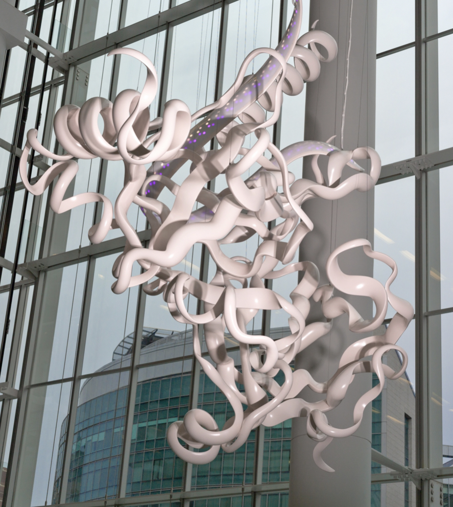 Homologous Hope is a science-art sculpture created by Mara G. Haseltine representing an accurate, scientific, large-scale reproduction of DNA repair through the process of homologous recombination. It was built in 2014 and is housed in the University of Pennsylvania Basser Research Center for BRCA in Philadelphia.